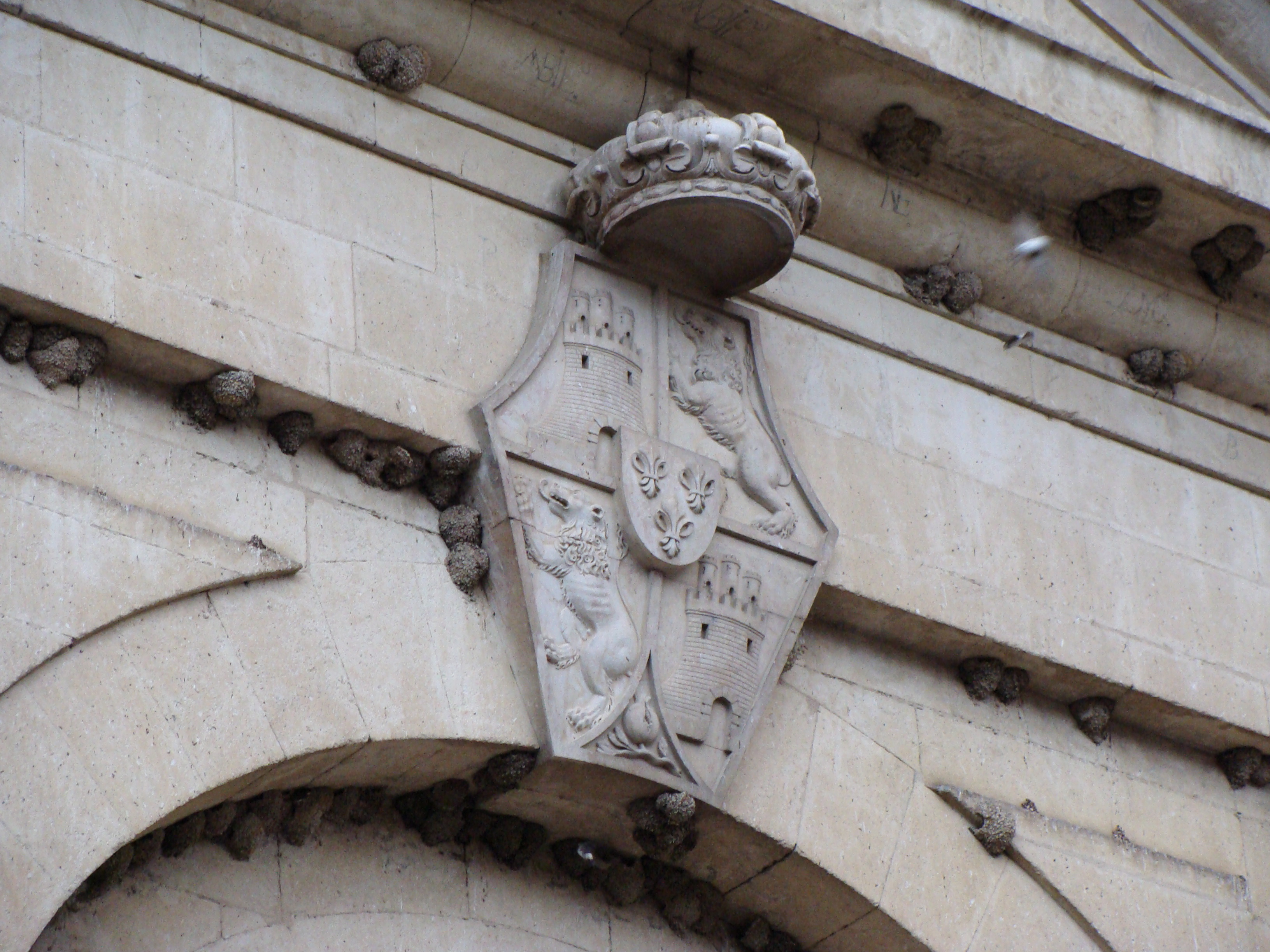 Coat of arms of king Charles IV of Spain (?), and bird nests